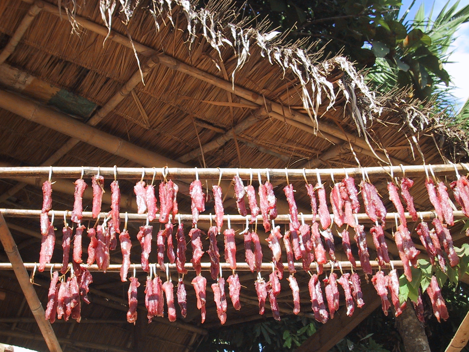 Beef sticks drying in the sun in Laos